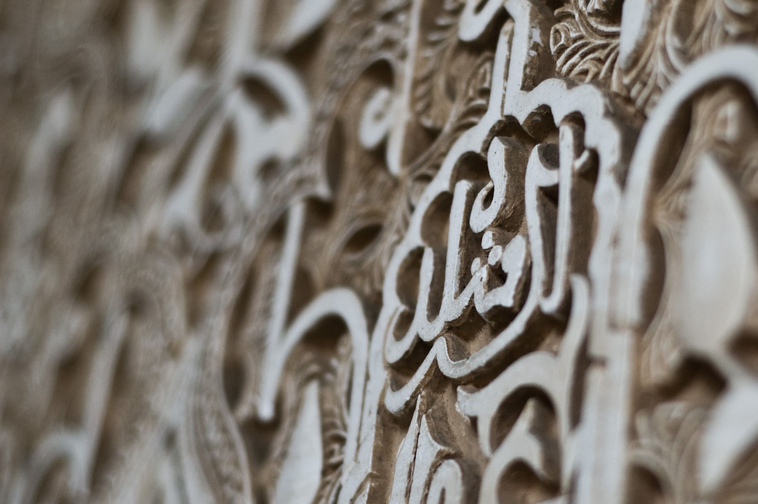 Detail from a wall of the palacios nazaries in the Alhambra, Granada, Spain.